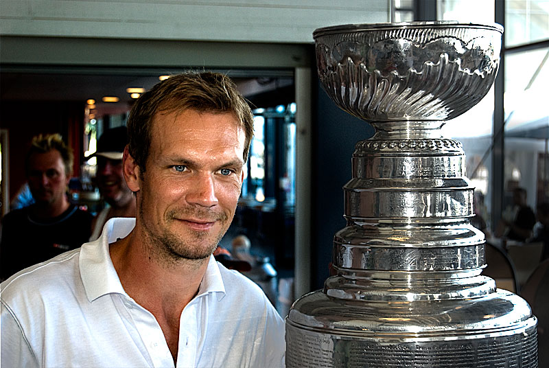 Nicklas Lidström with the Stanley Cup trophy in Västerås, Sweden.